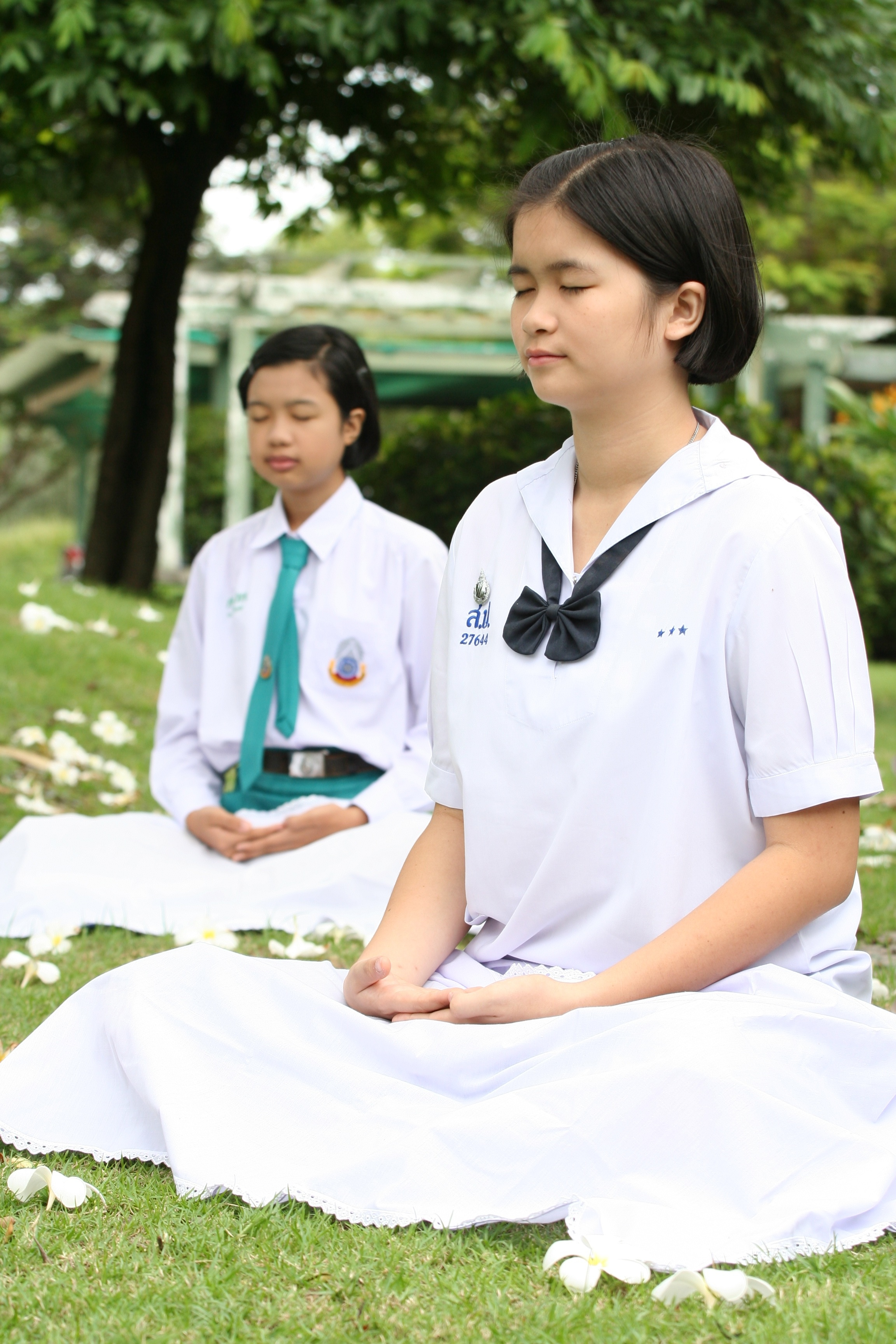 School girls meditating.